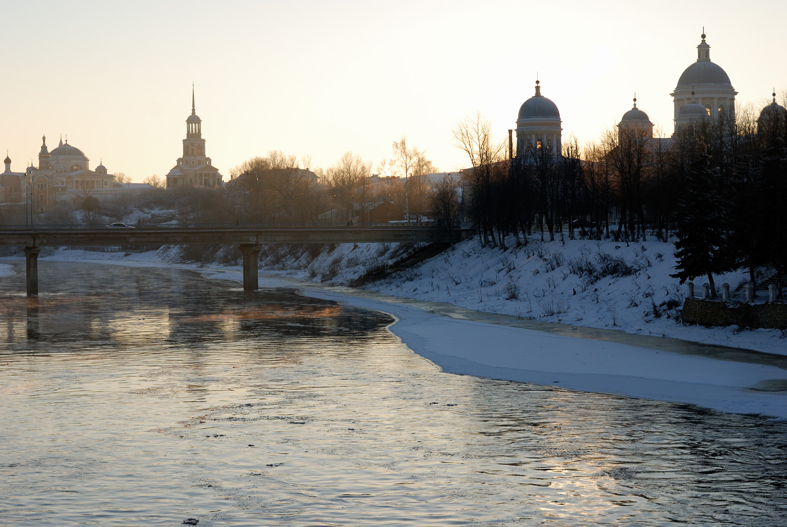 Tvertsa River in Torzhok